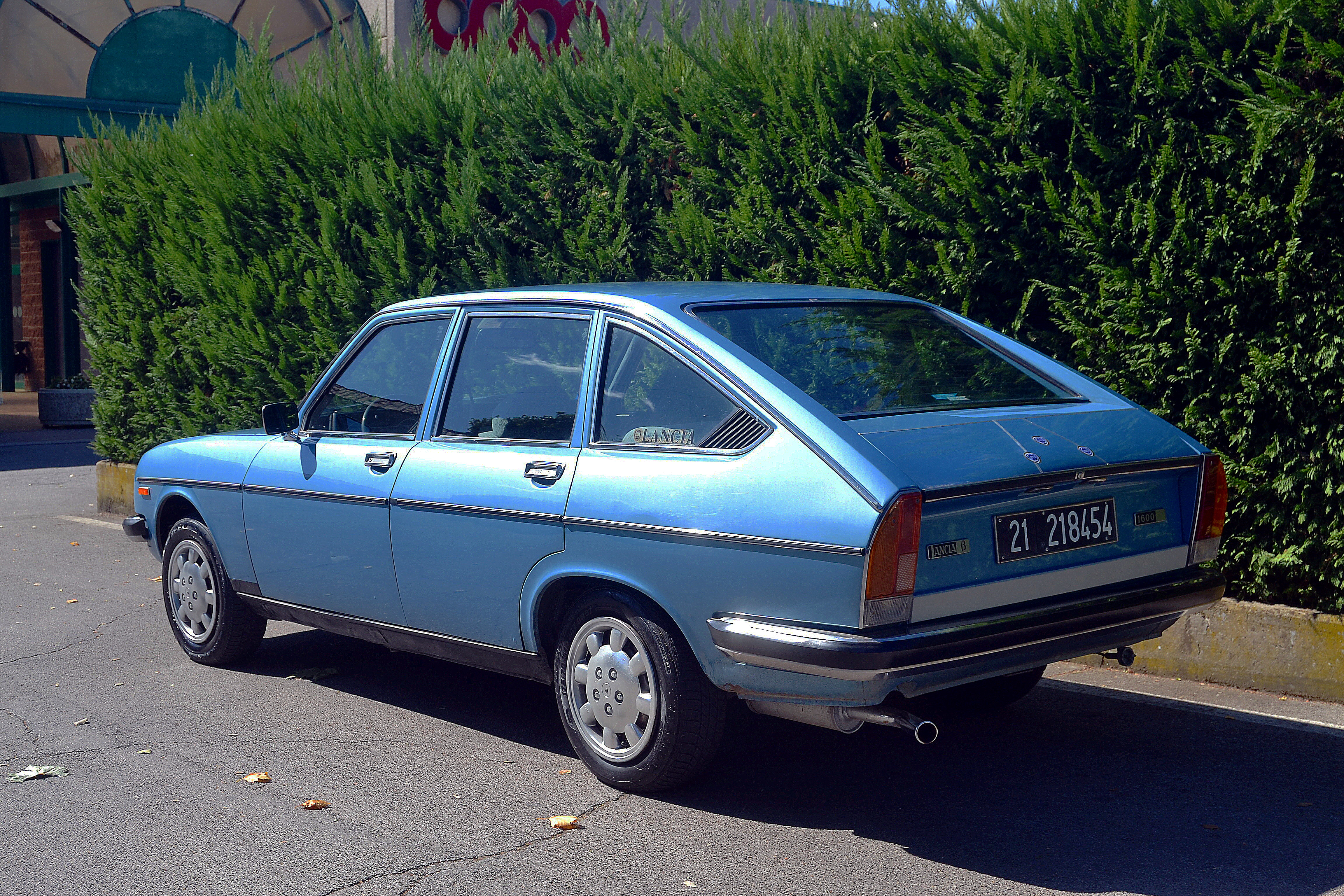 Lancia Beta Berlina